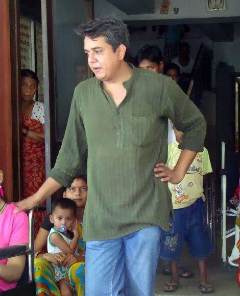 Rahul Verma is Social Worker based in New Delhi, India